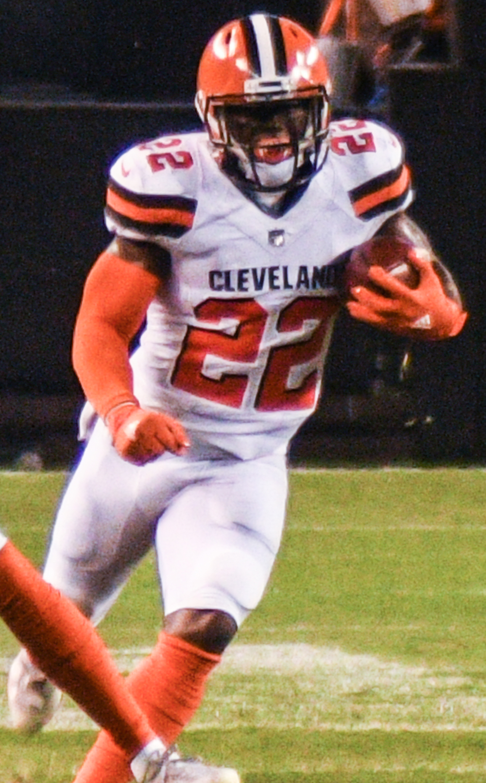 Cleveland Browns vs. New York Giants